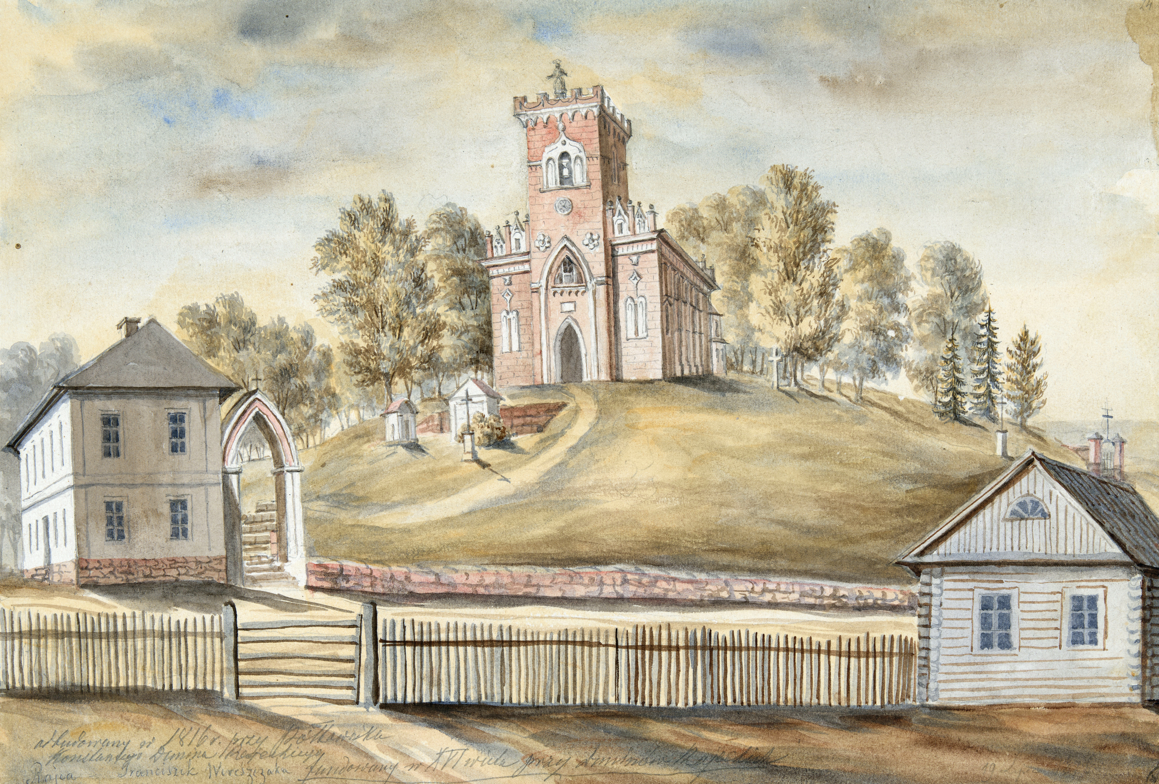 Catholic Church in Rajca, N. Orda